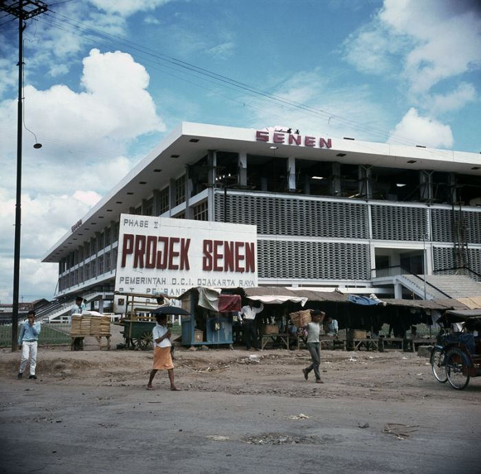 Market hall under construction at Pasar Senen